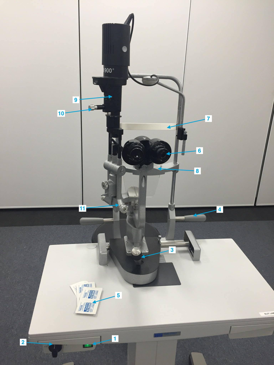 Labelled Image of the Slit Lamp On/off switch Illumination Joystick Handles for patient Alcohol swabs Eyepieces Forehead rest Chin rest Filter Changing Knob Slit beam length knob Slit beam width knob